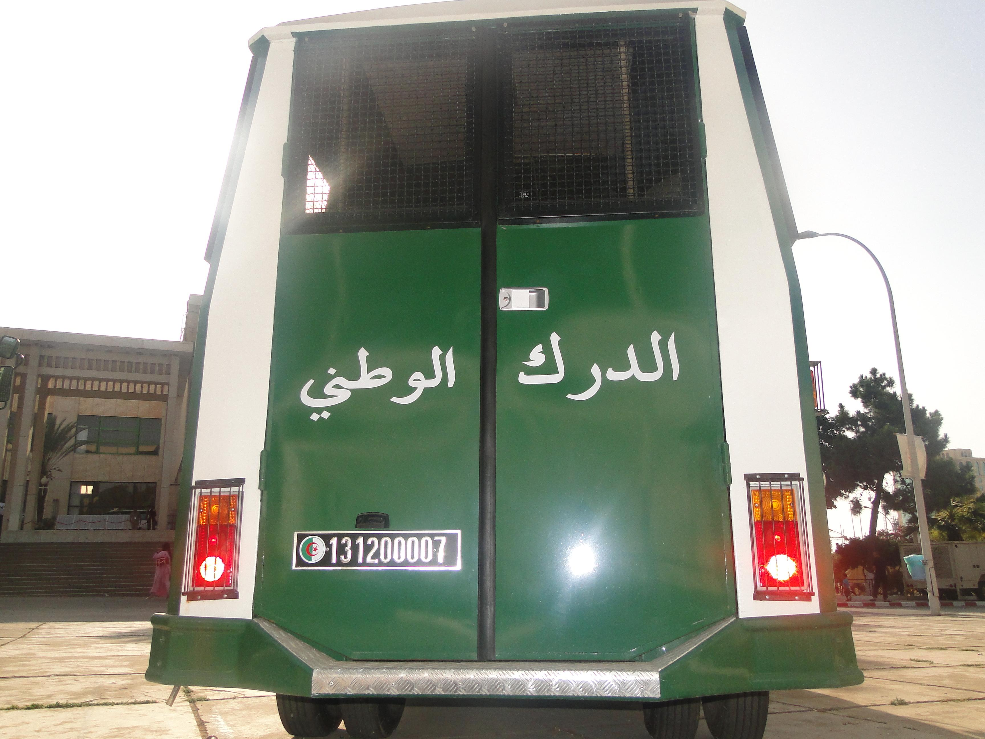 Algerian armored van